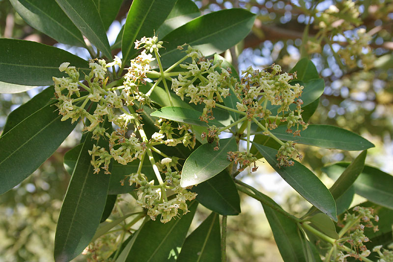 Saptaparni/ Blackboard tree/ Indian devil tree/ Ditabark/ Milkwood pine/ White cheesewood/ Pulai/ Chhatim Alstonia scholaris in Hyderabad, India.